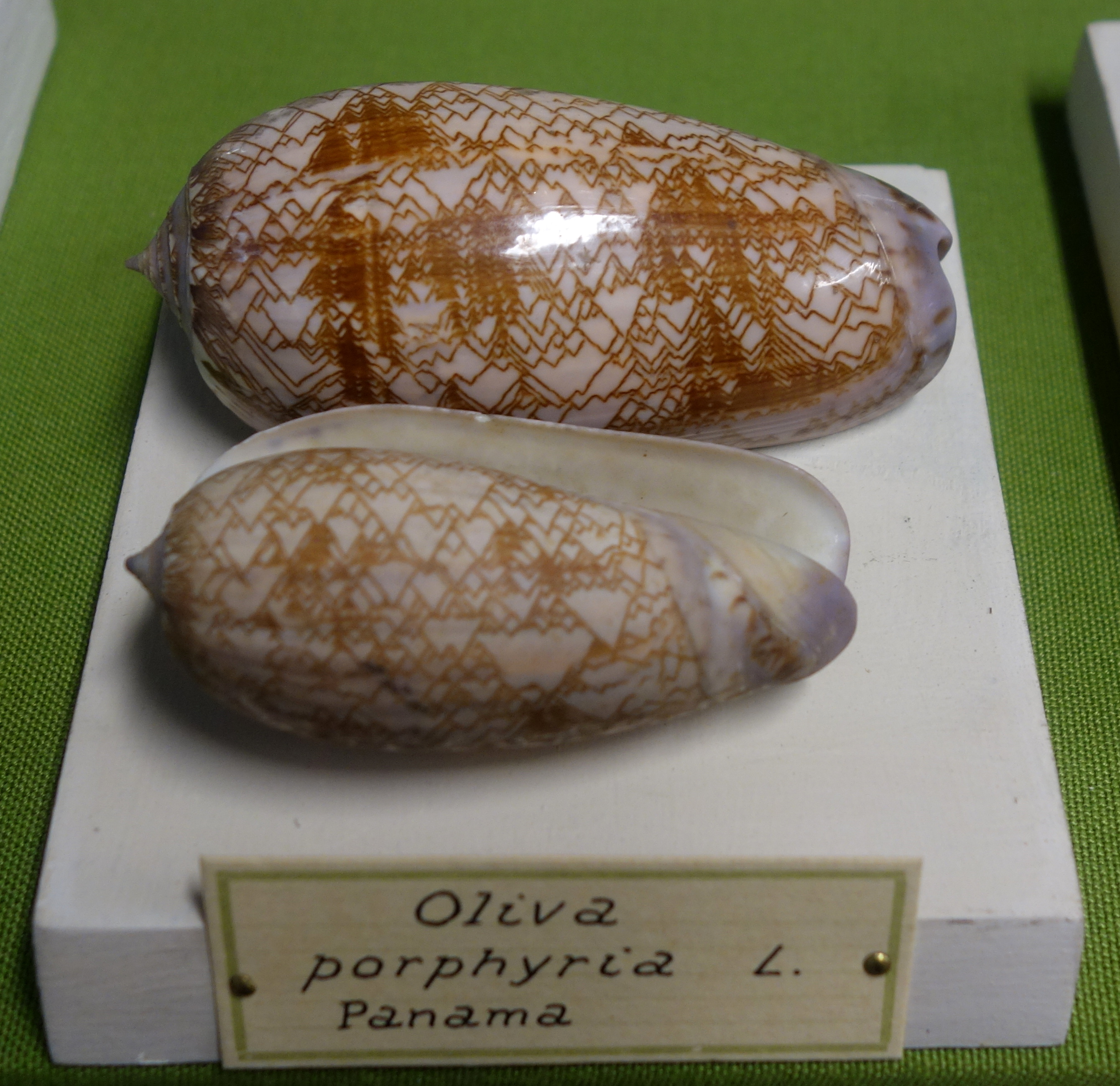 Exhibit in the Museo Civico di Storia Naturale di Genova, Via Brigata Liguria, 9, 16121, Genoa, Italy.